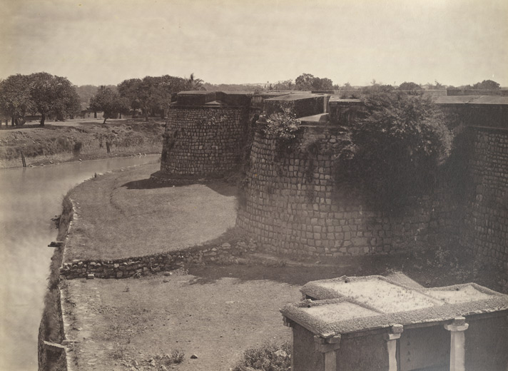 This view of the ruined fort at Bangalore was taken by Nicholas Bros